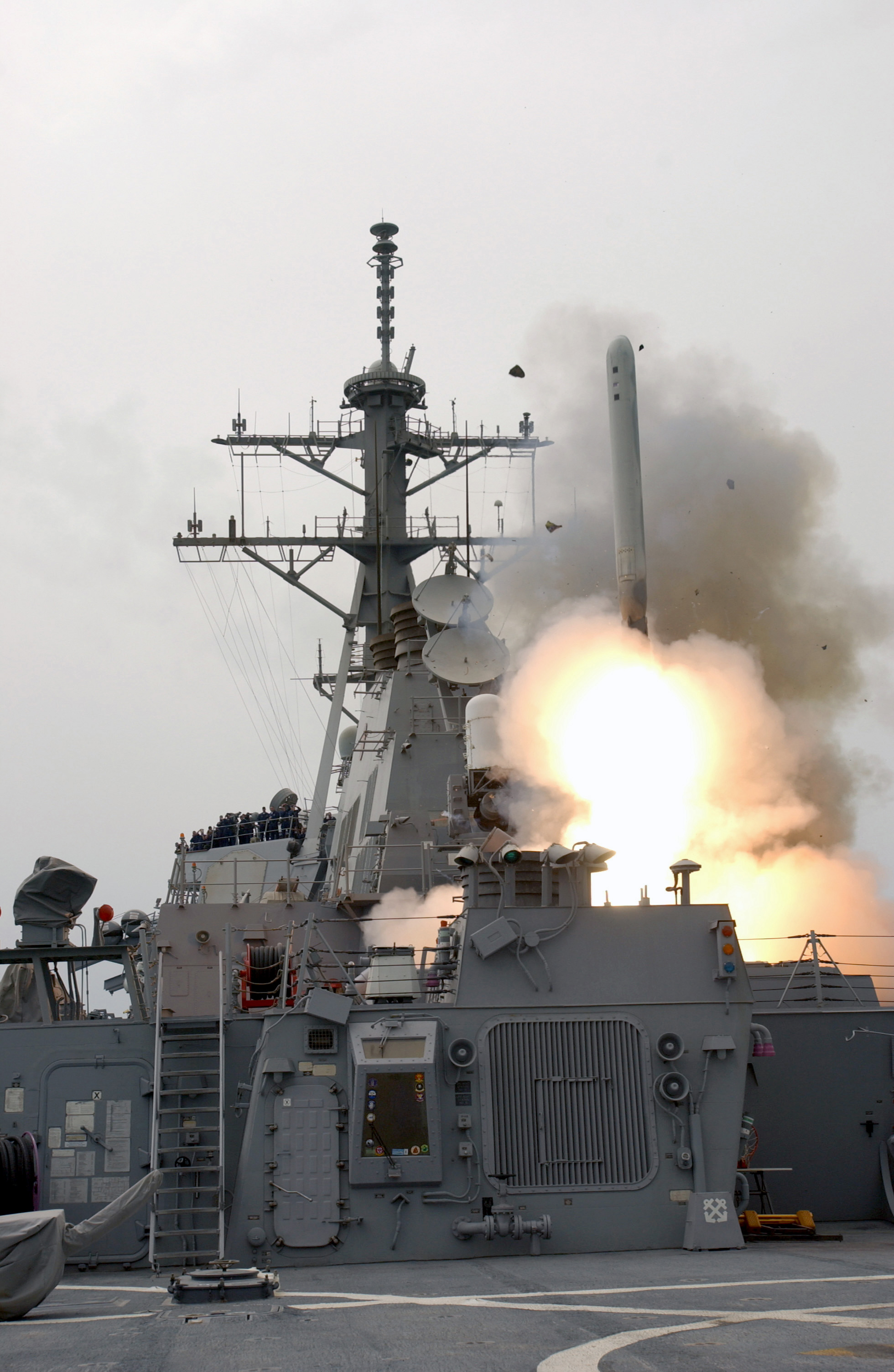 Central Command Area of Operation (Mar. 22, 2003) -- The guided missile destroyer USS Milius (DDG 69) launches a Tomahawk Land Attack Missile (TLAM) toward Iraq during the initial stages of the Operation Iraqi Freedom. Milius is homeported in San Diego, Calif. Operation Iraqi Freedom is the multinational coalition effort to liberate the Iraqi people, eliminate Iraq’s weapons of mass destruction, and end the regime of Saddam Hussein. U.S. Navy photo by Photographer’s Mate 1st Class Thomas Lynaugh. (RELEASED)